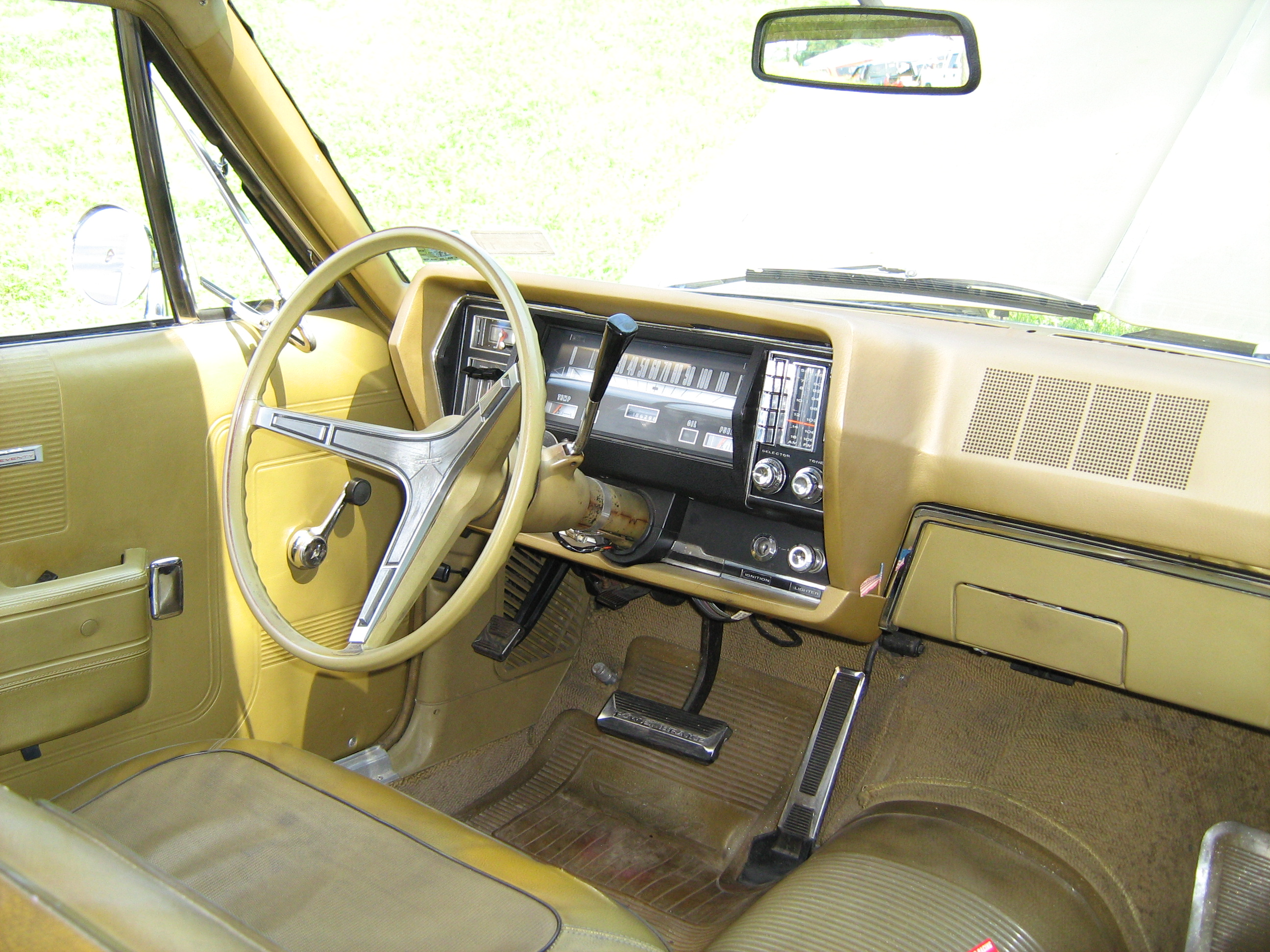 Interior view of cockpit and dashboard in the 1968 Rebel 770, a mid-sized "Cross Country" station wagon by American Motors Corporation (AMC). The standard gold vinyl upholstery matches the exterior paint. This car has the optional AM/FM radio. Picture taken at the Cecil County Dragstrip in Maryland.